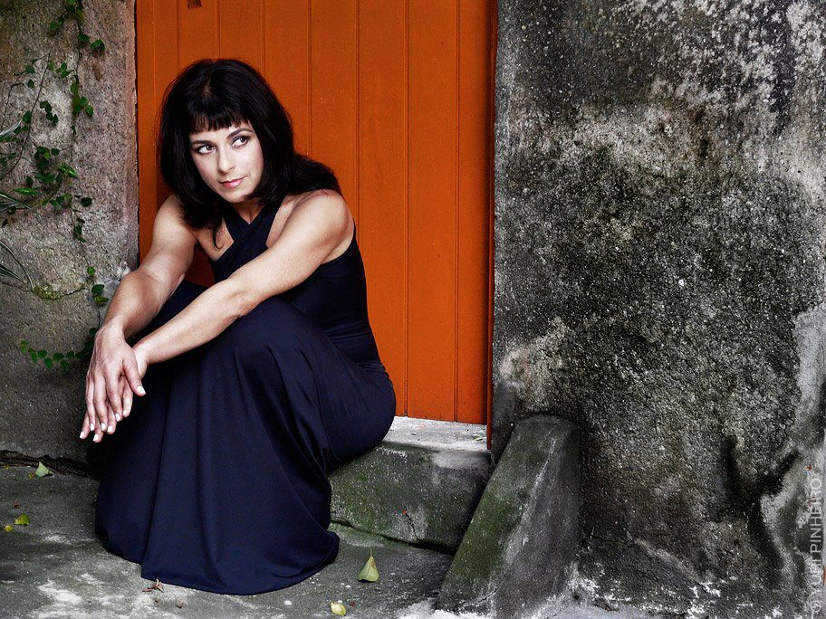 Picture of Brazilian singer and actress Natalia Barros, granted to Wikipedia by Yuri Pinheiro, photographer